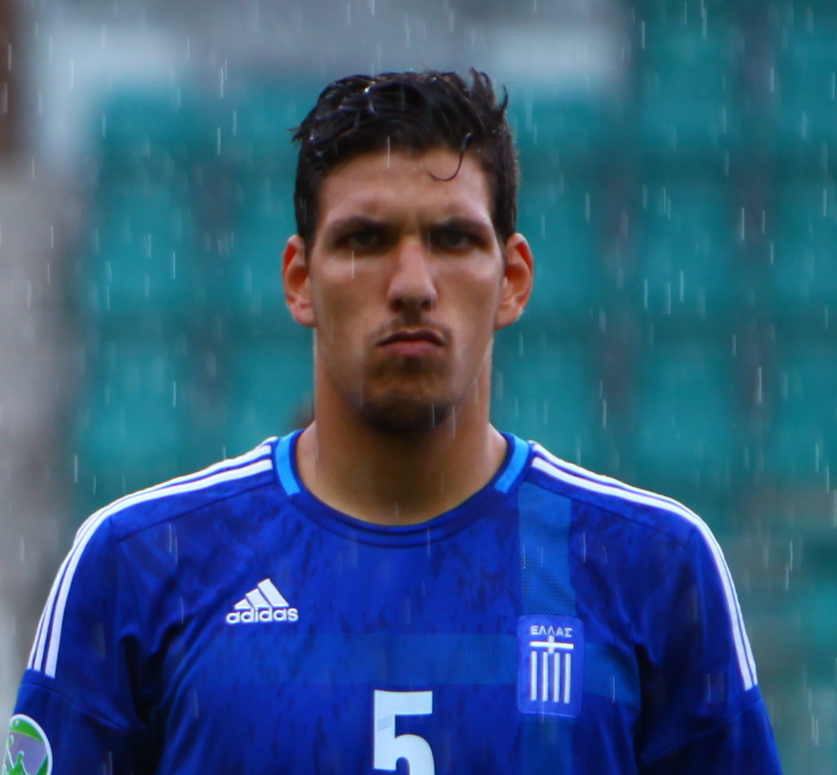 U-19 England vs Greece.